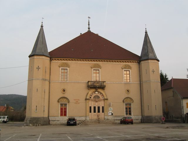 Mouthe Town Hall built in the mid-19th century by french architect Pierre Marnotte